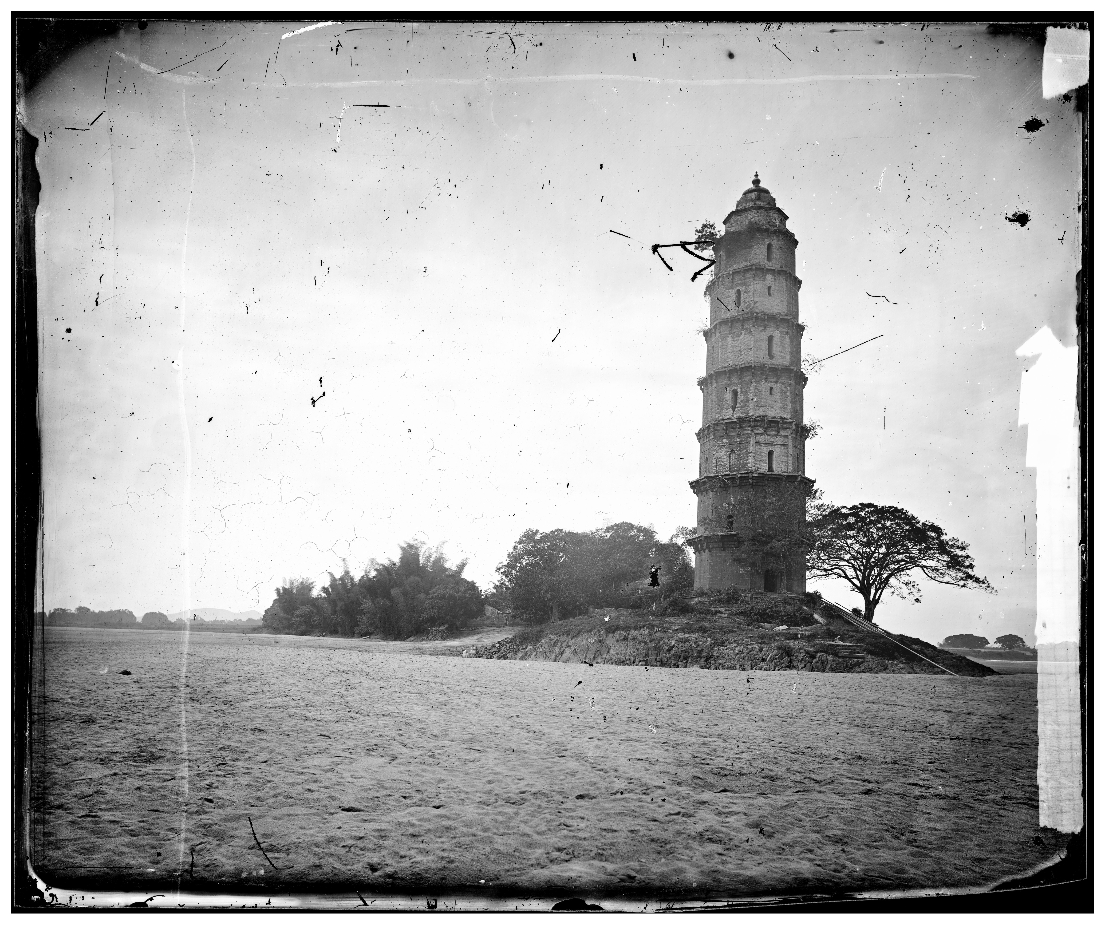 Chaozhou, Kwangtung province, China: Phoenix pagoda. Photograph by John Thomson, 1870. Iconographic Collections Keywords: J. Thomson